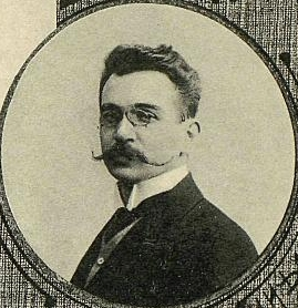 Ivan Dmitryukov